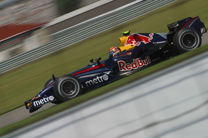 Mark Webber driving for Red Bull Racing at the 2007 United States Grand Prix.